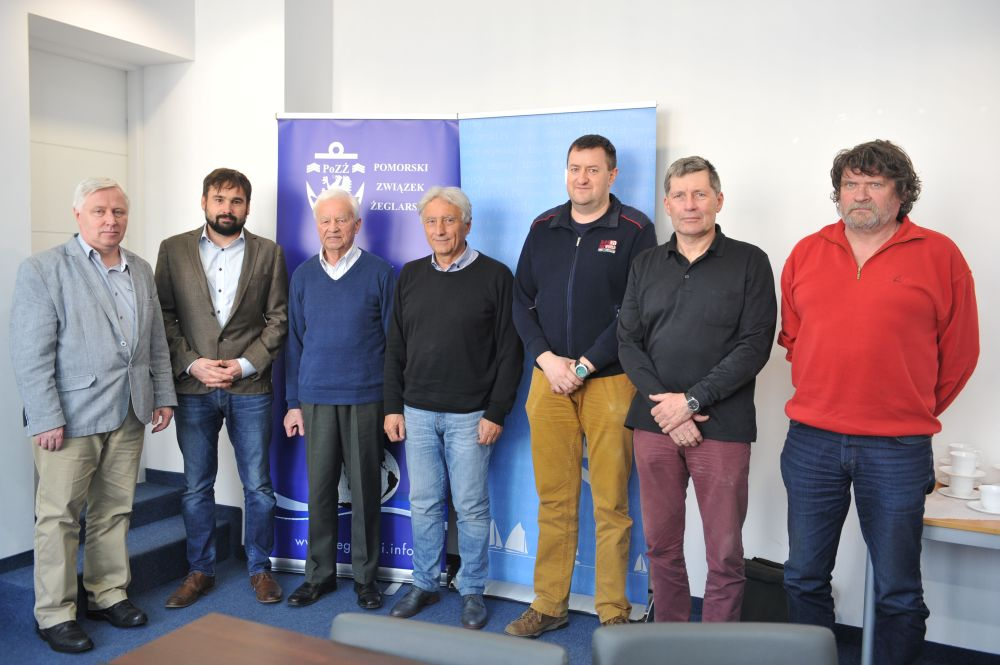 Pomeranian Sailing Associations Board Members (from left): Bogusław Witkowski, Łukasz Trzciński, Edward Kinas, Leopold Naskręt, Sebastian Wójcikowski, Marek Wójcik i Eugeniusz Ginter.